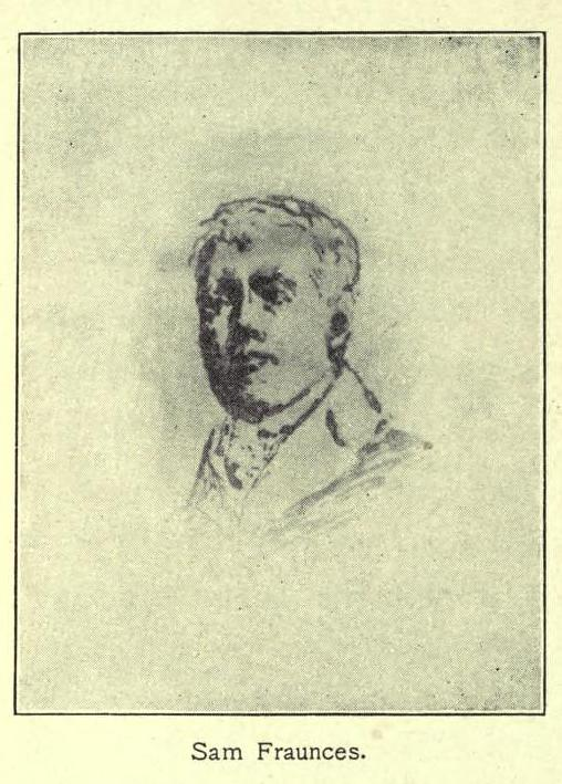 Sam Fraunces, circa-1900 engraving, based on an ink sketch attributed to John Trumbull.